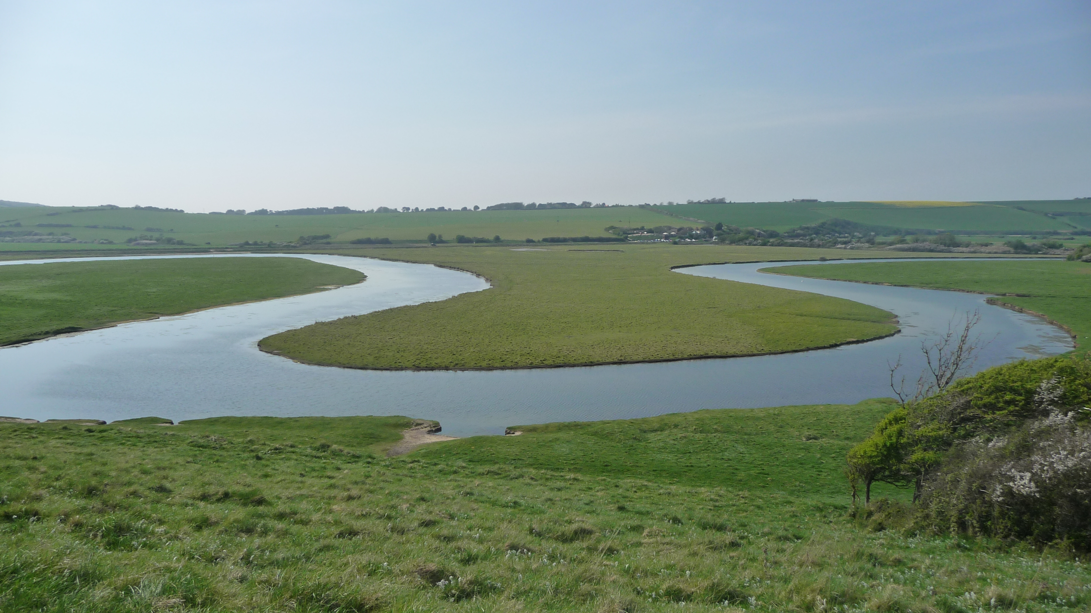 A meander photographed in the Seven Sisters Country Park of the river Cuckmere.